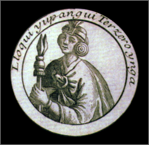 Portrait of Lloque Yupanqui in the frontispiece to the fifth Decade of Historia general de los hechos de los castellanos en las Islas y Tierra Firme del mar Océano que llaman Indias Occidentales by Antonio de Herrera